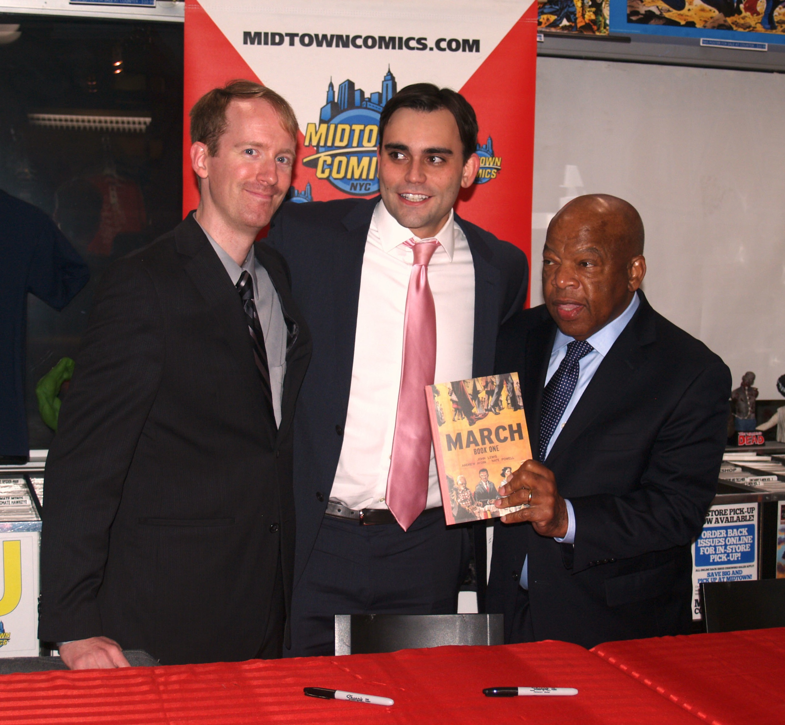 From left to right: Comics artist and musician Nate Powell, telecommunications and technology policy aide Andrew Aydin, and civil rights leader and politician John Lewis, at a November 7, 2013 book signing for March Book One, the first volume of Lewis' three-volume graphic novel autobiography, at Midtown Comics Downtown in Manhattan. This photo was created by Luigi Novi. It is not in the public domain, and use of this file outside of the licensing terms is a copyright violation.